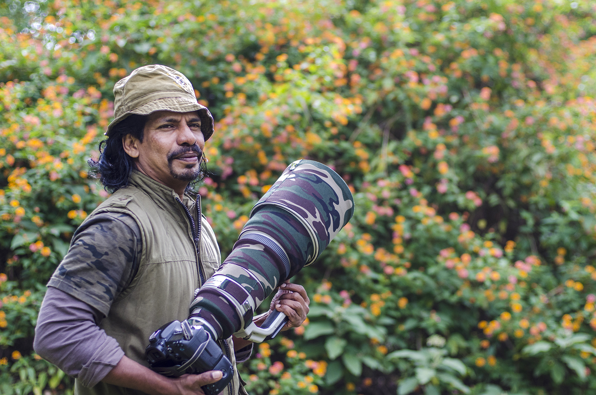 Wildlife photographer and Nature conservation activist. From Kerala, India